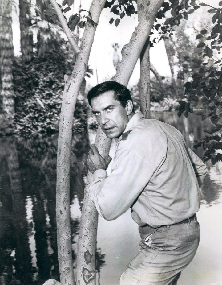 Photo of Martin Landau as Rollin Hand from the television program Mission:Impossible.